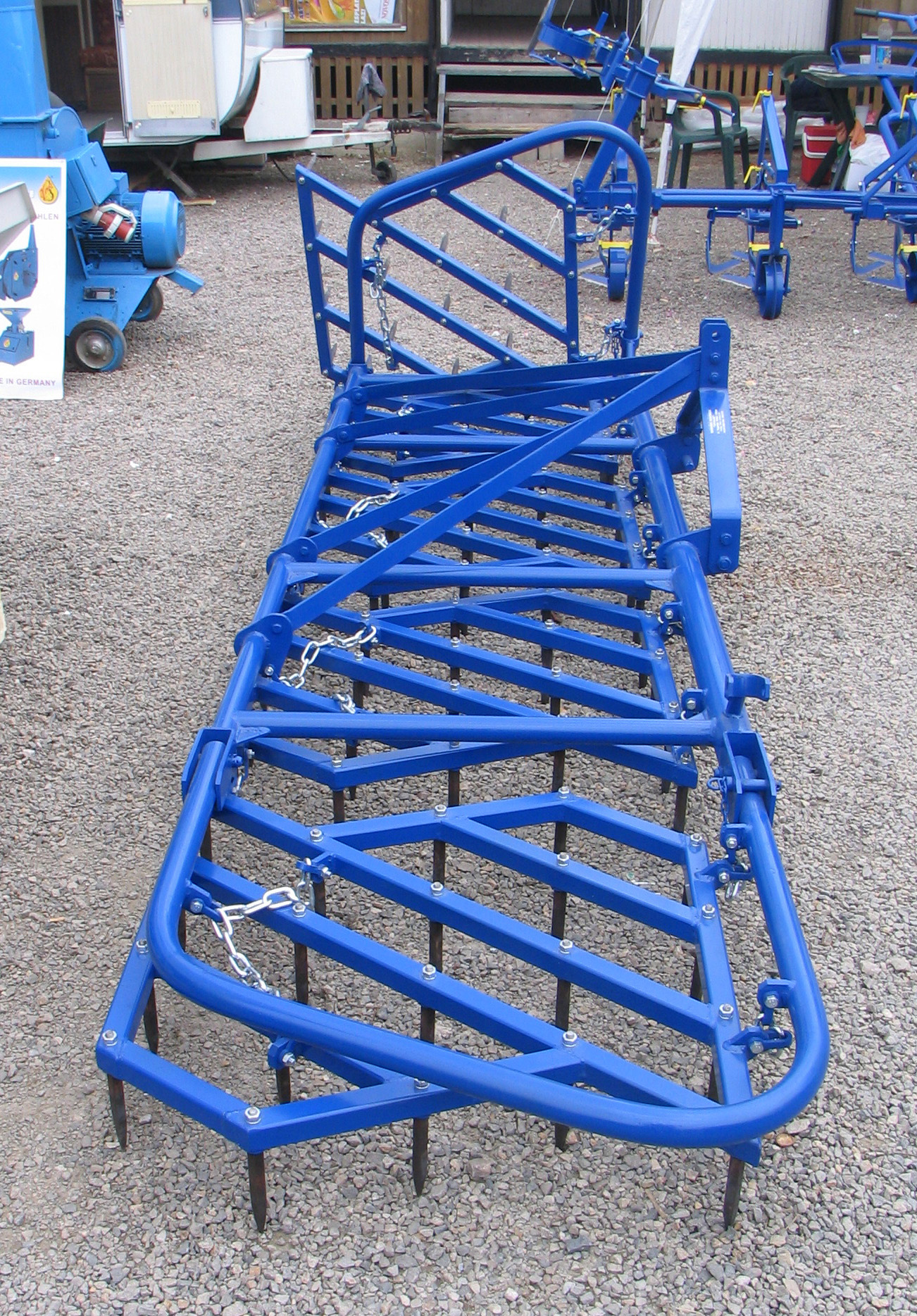 Spike harrow Agricultural fair Novi Sad (photo: Mihailo Grbić)